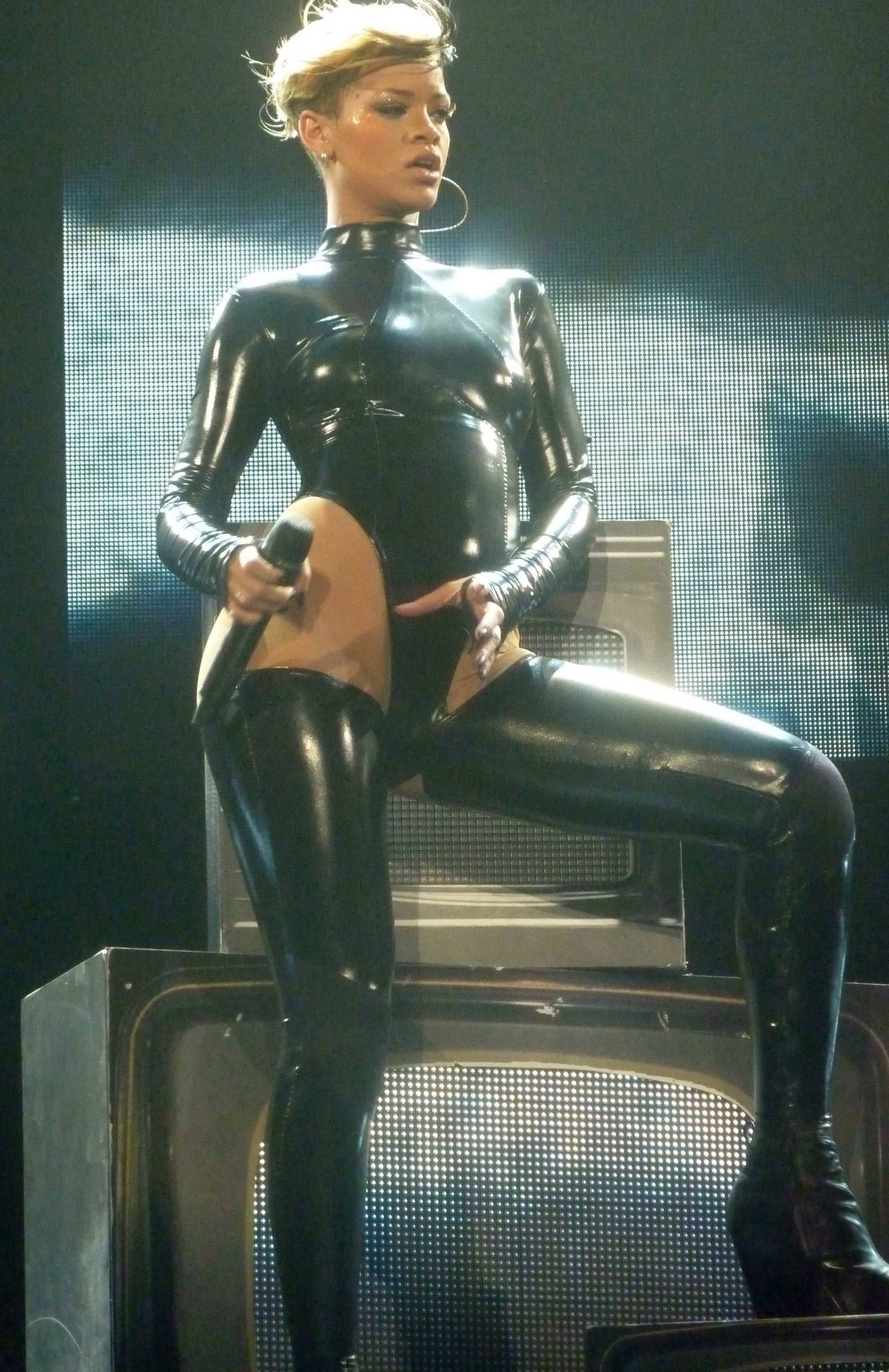 Rihanna in concert at the Paris Bercy during the "Last Girl on Earth Tour" in April 2010.